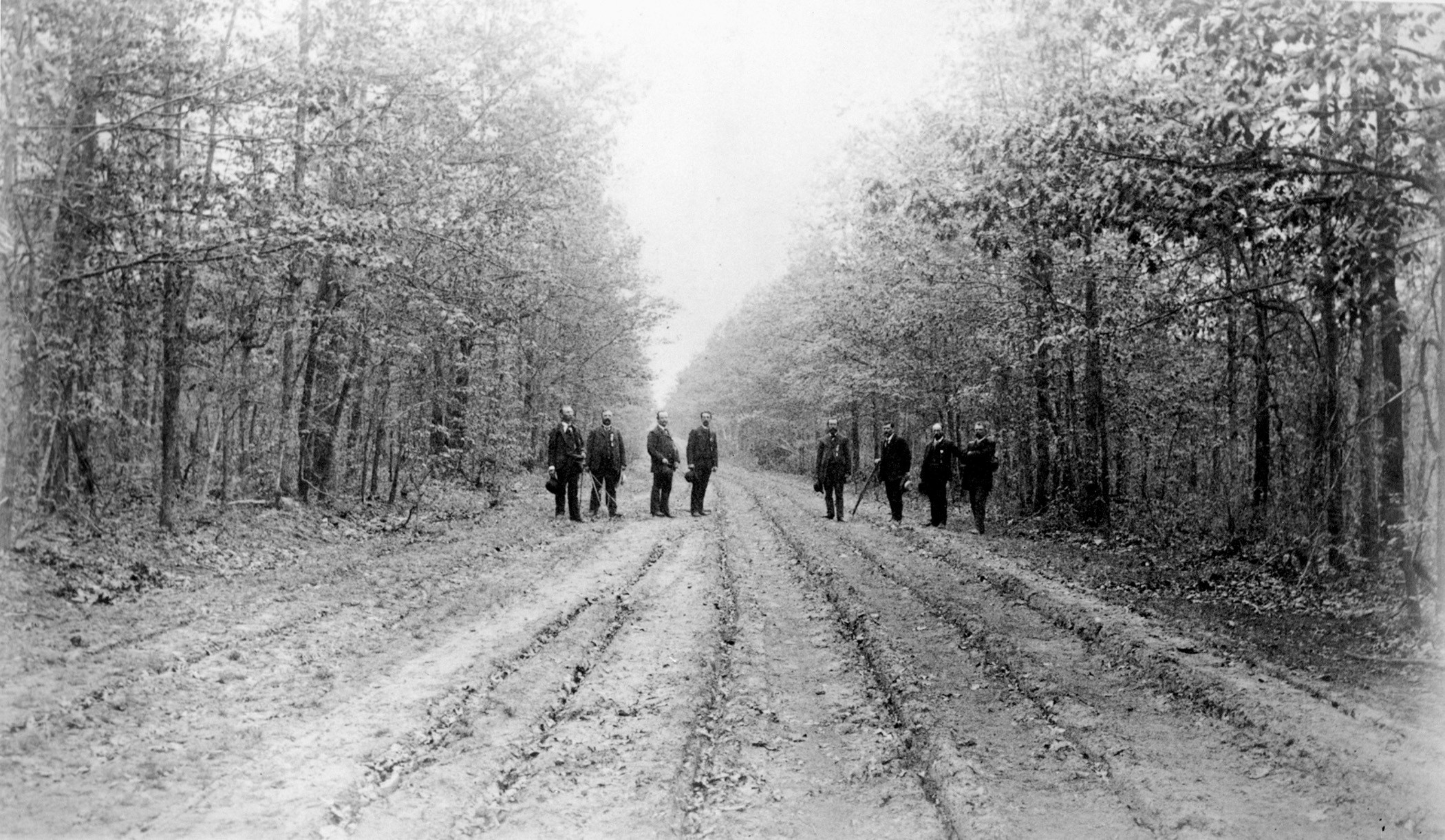 Veterans on the Orange Plank Road. (Fredericksburg and Spotsylvania National Military Park Collection.)